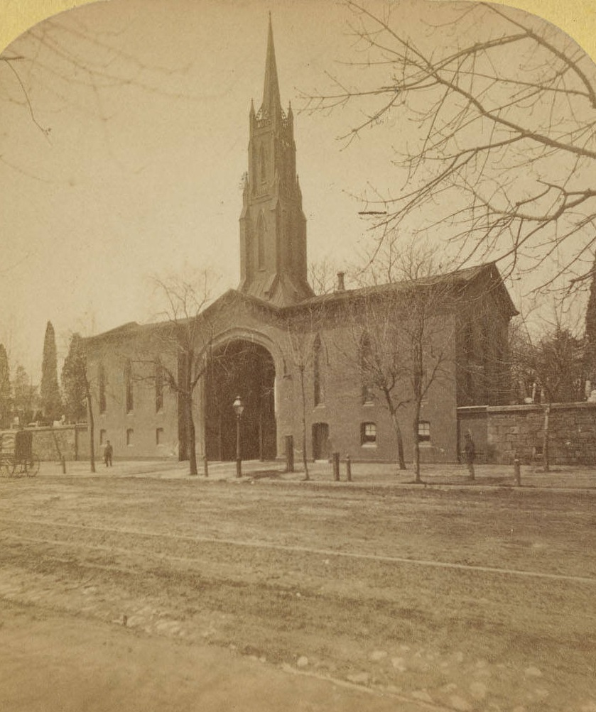 Photograph of Gothic gatehouse to Philadelphia's Monument Cemetery circa 1868. It was torn down in 1904 to extend Berks Street.